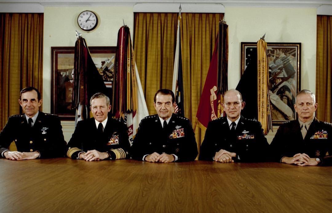 The Joint Chiefs of Staff member pose in The Tank room at The Pentagon in 1981, From left to right are: U.S. Army Chief of Staff Gen. Edward C. Meyer, U.S. Navy Chief of Naval Operations Adm. Thomas B. Hayward, Chairman of the Joint Chiefs of Staff Gen. David C. Jones, U.S. Air Force Chief of Staff Gen. Lew Allen, U.S. Marine Corps Commandant Gen. Robert H. Barrow.